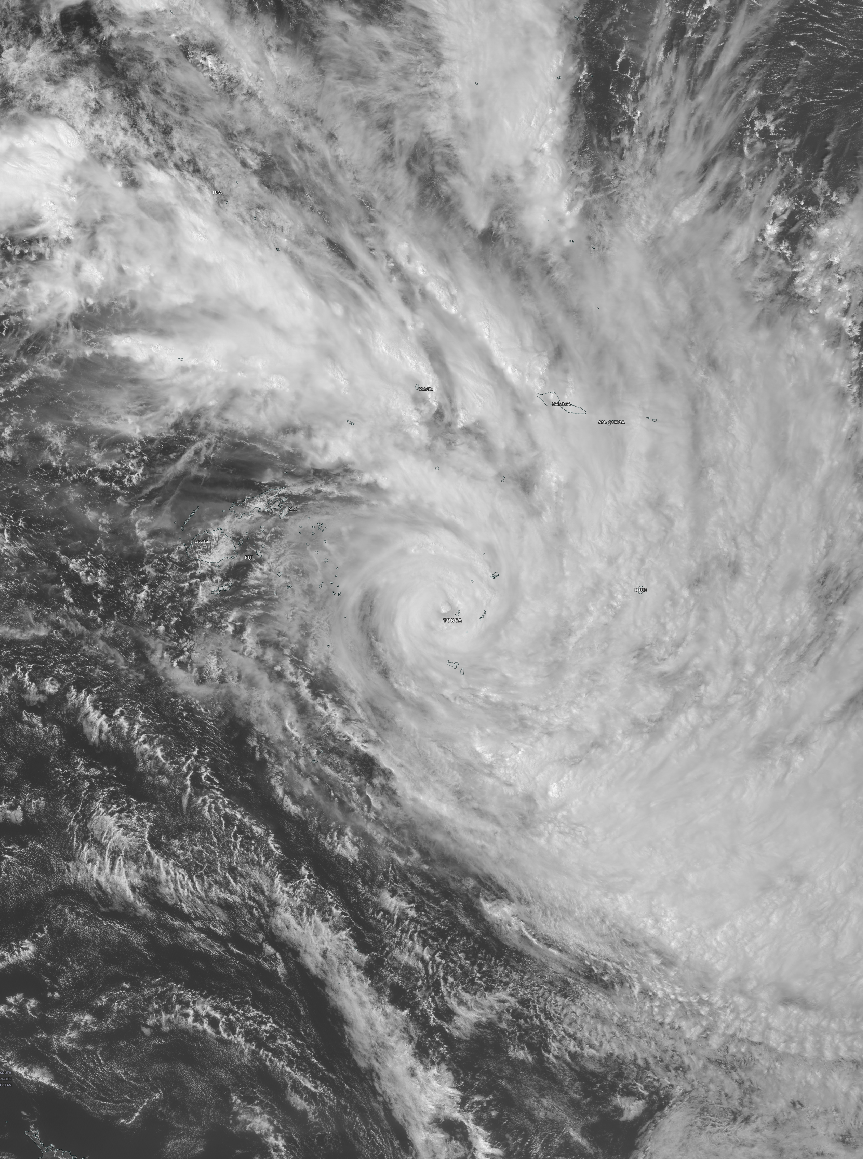 Tropical Cyclone Tino at peak intensity at 02:25 UTC on January 18, 2020 with coastlines